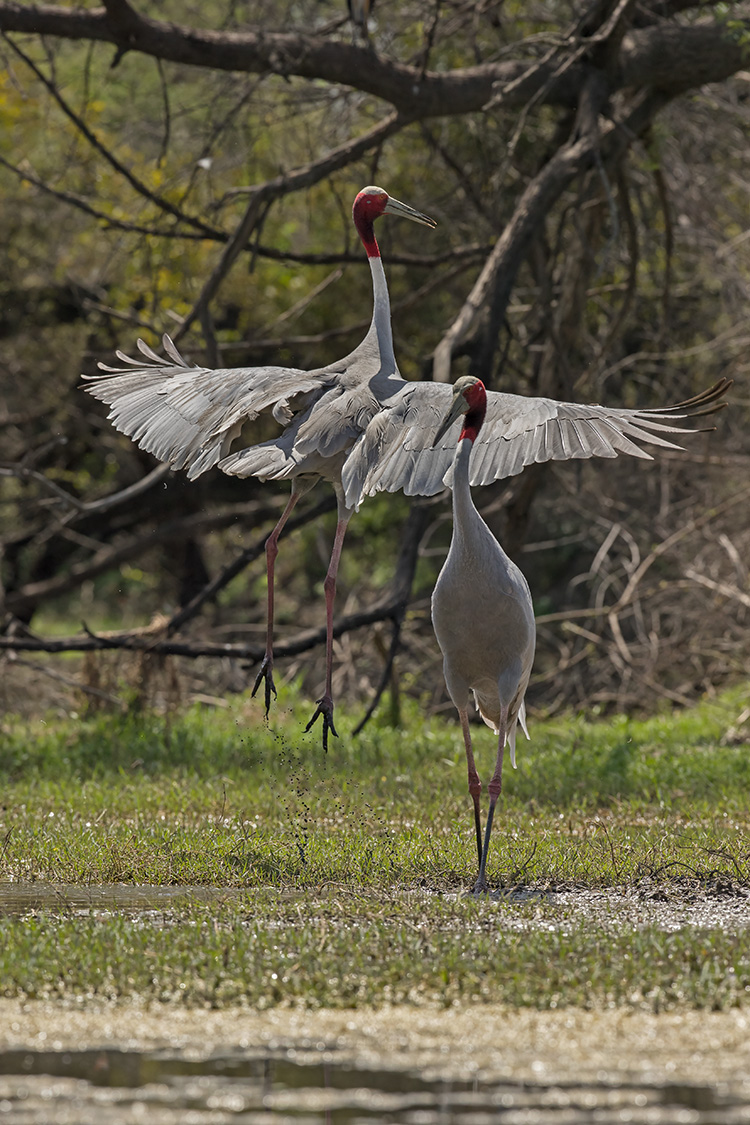 Courtship call during their courtship dance